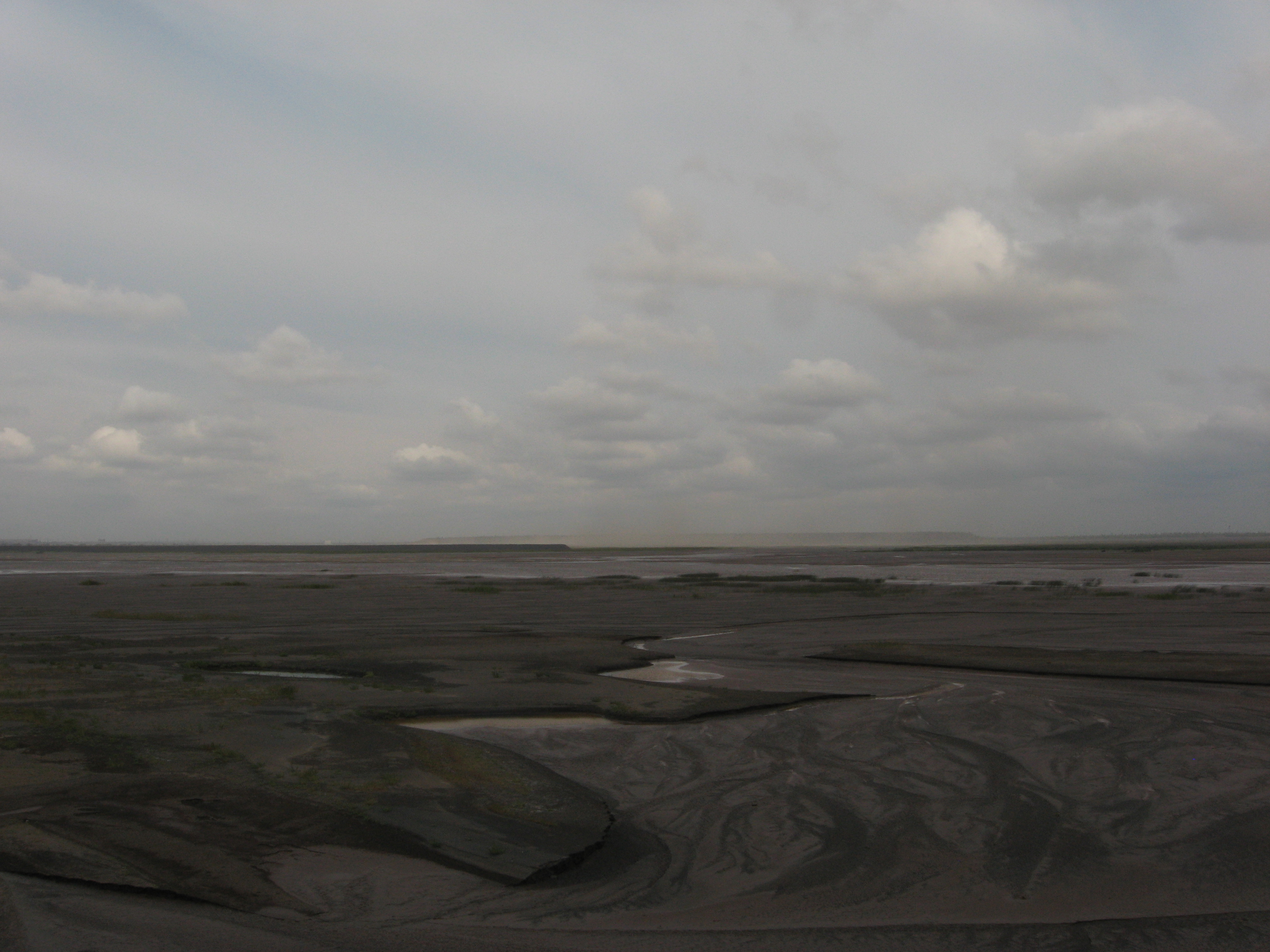 Wastes discharge into tailing dump, near Kriviy Rih, Ukraine. The area of tailing dump is approximately 25 square kilometers.